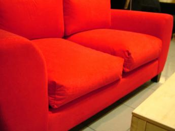 Red sofa